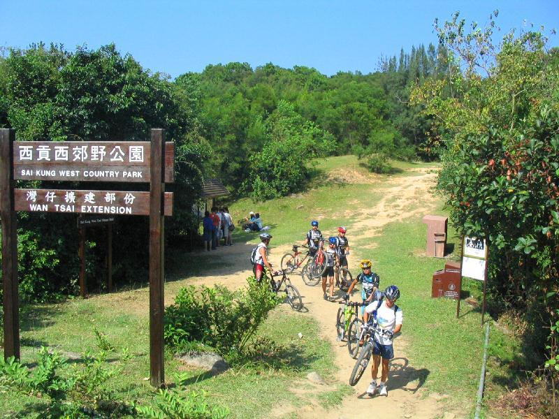 西貢西郊野公園, Photo by MarieCarrie.